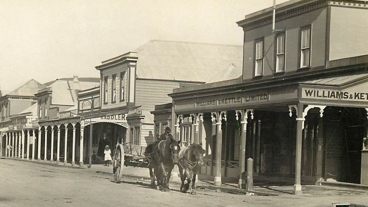 Waipawa circa 1915 and branch of Williams & Kettle